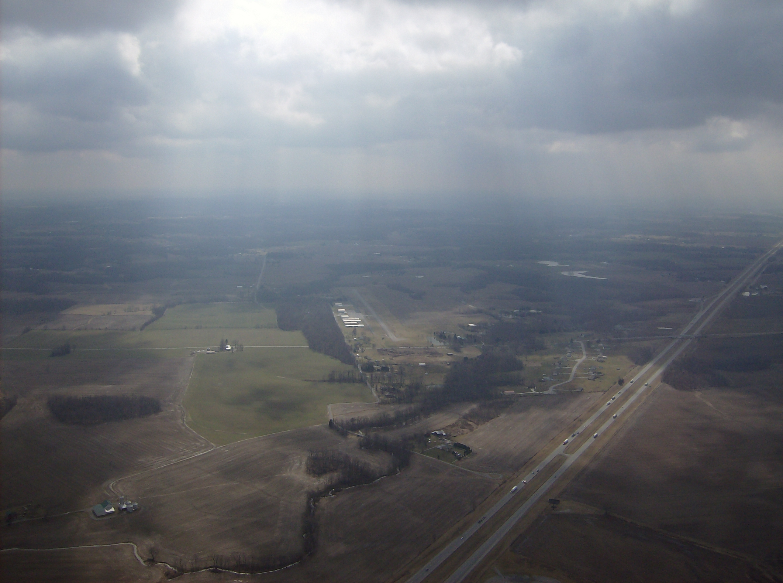 Clinton Field, an airport located near Interstate 71 in northwestern Union Township, Clinton County, Ohio, United States. Picture taken from a Diamond Eclipse light airplane at an altitude of 2,700 feet MSL and a bearing of approximately 200º.